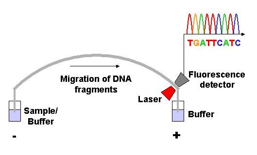 Created by Abizar Lakdawalla.